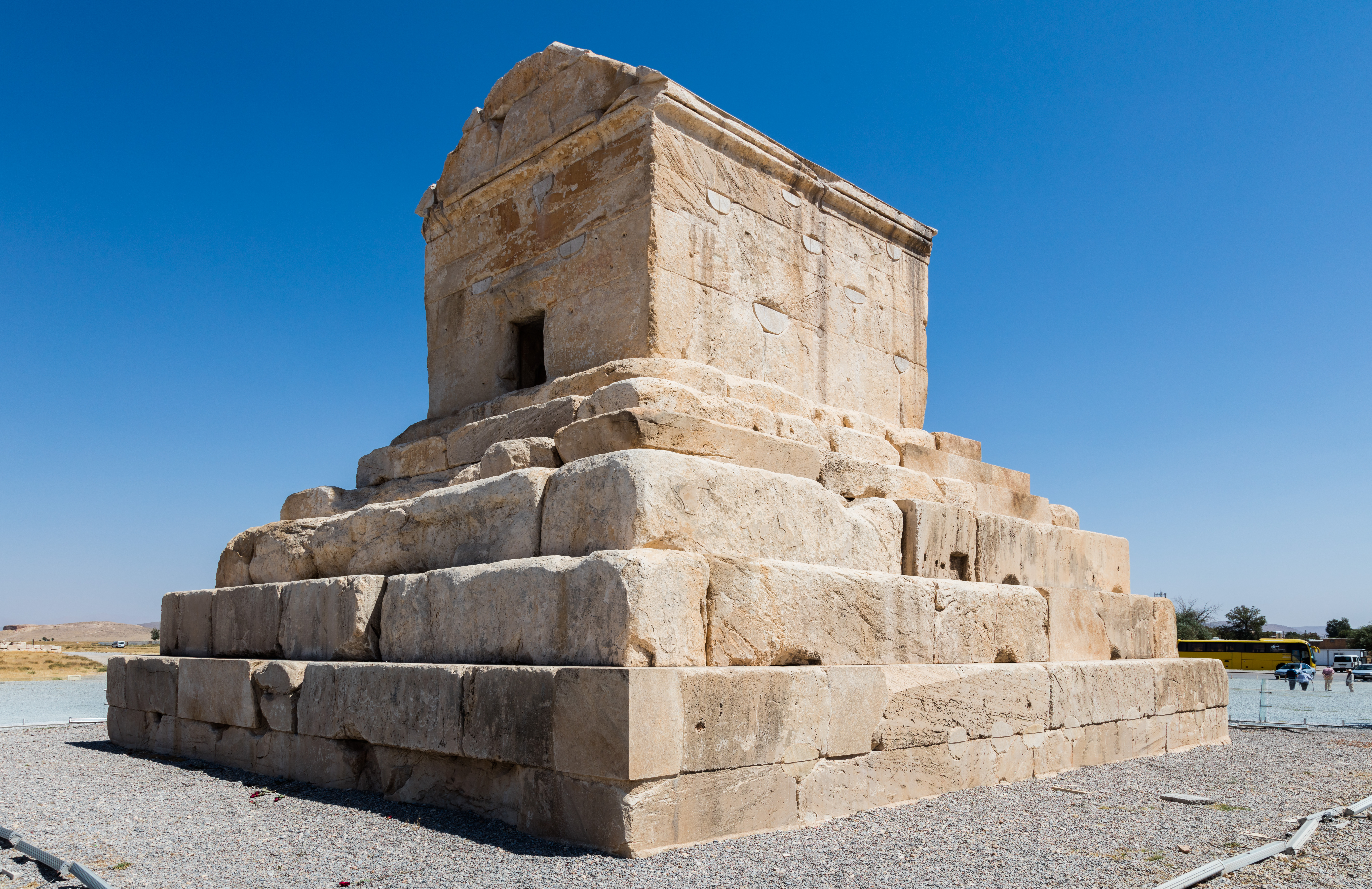 Pasargadae, Iran